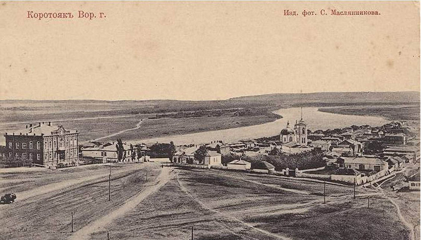 Korotoyaksky monastery